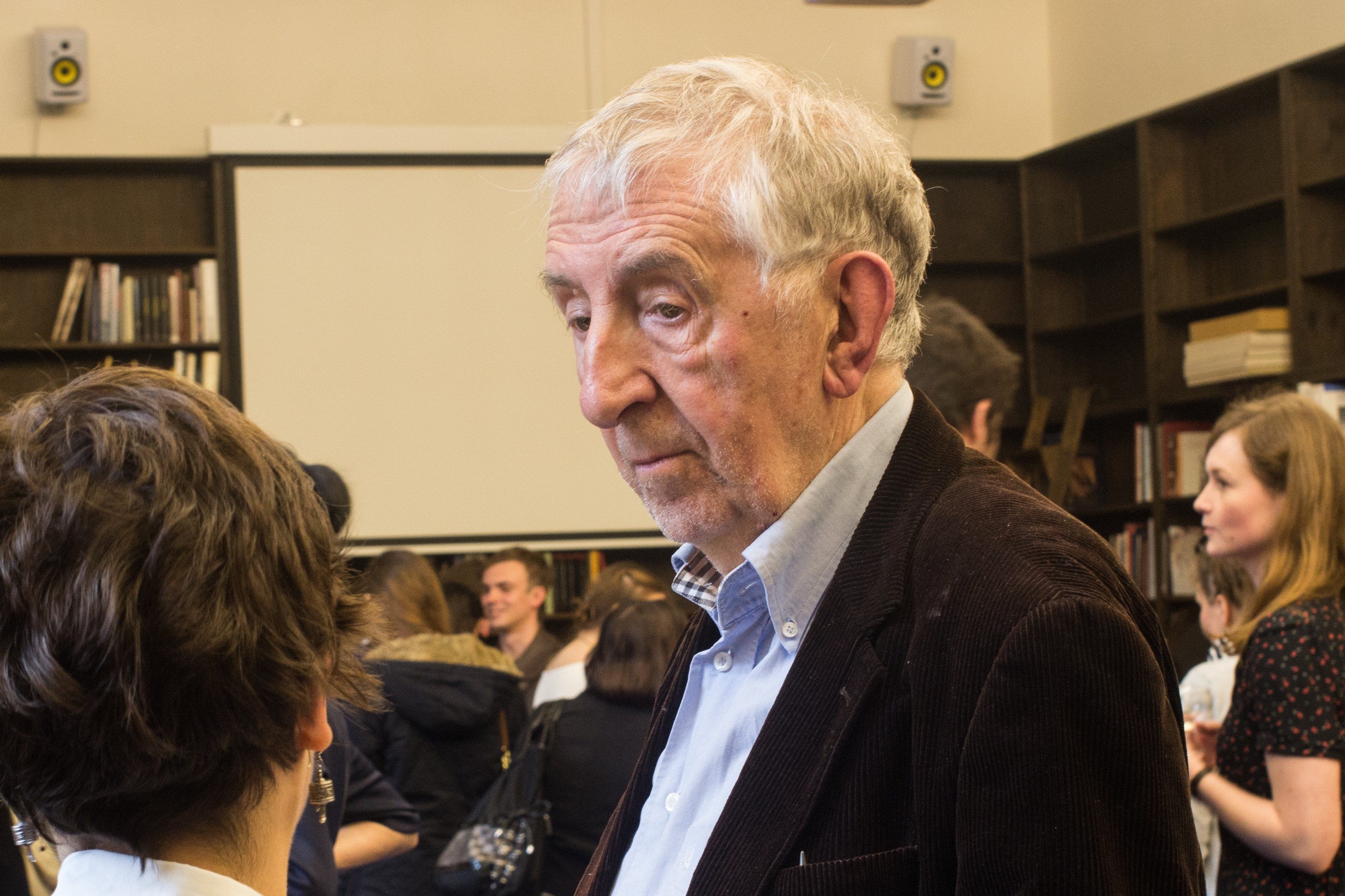 Ceremonial opening of Hans Belting Library in building of Faculty of Arts of Masaryk university in Brno, Czech republic. Hans Belting himself was present. 19.4.2016